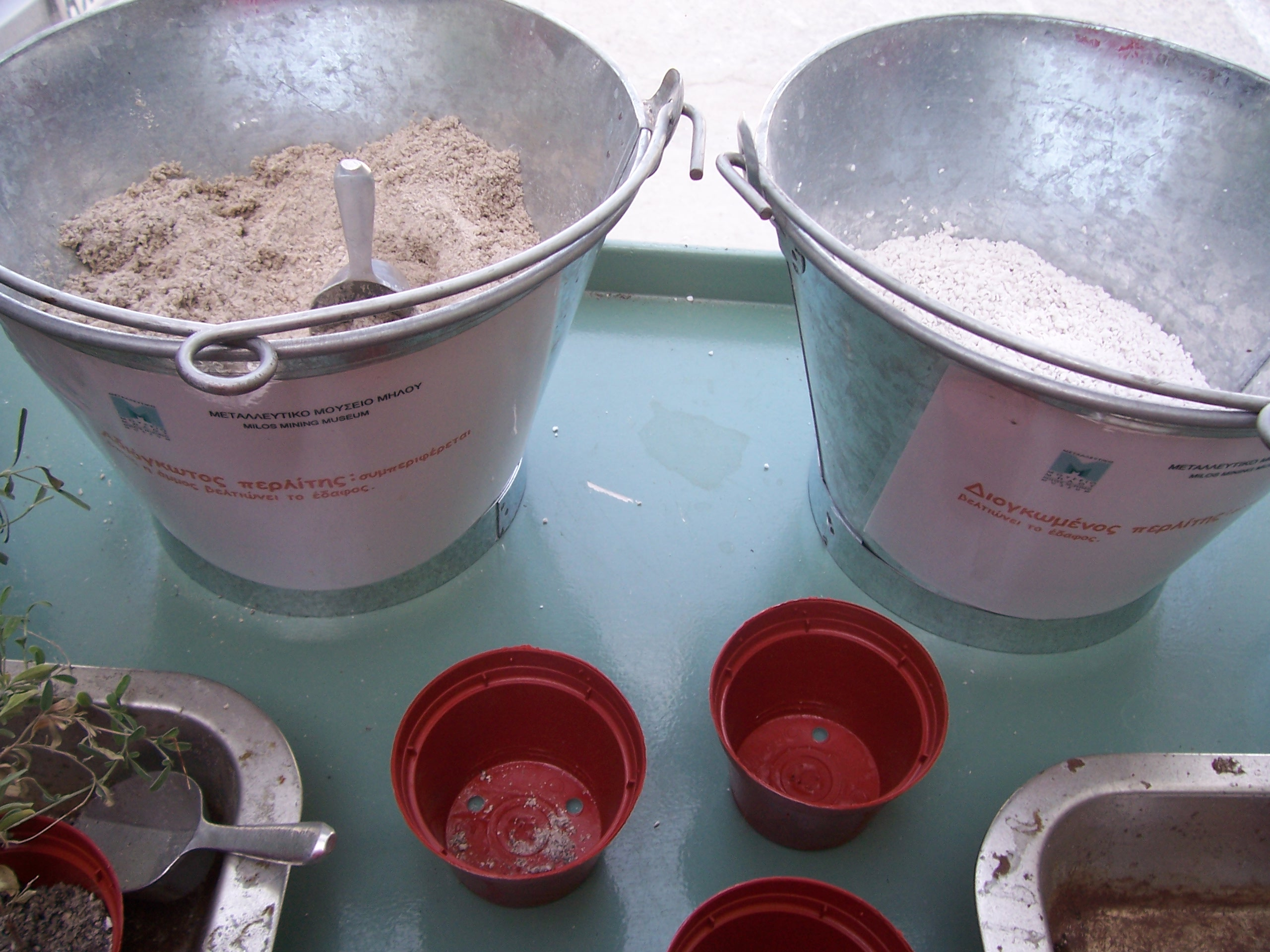 Perlite, milos mining museum